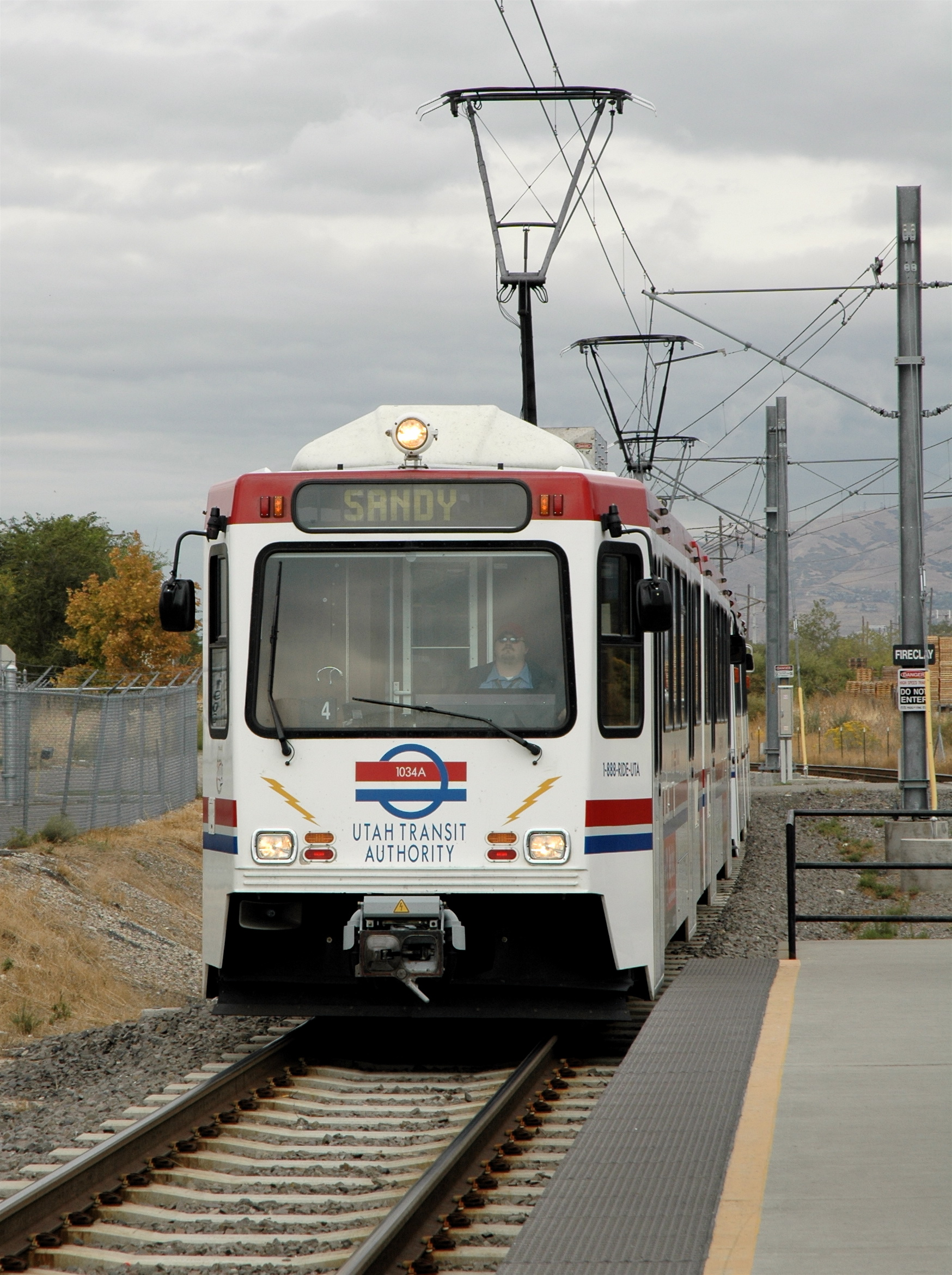 Siemens-built tram of the UTA's TRAX network approaching Murray North station.